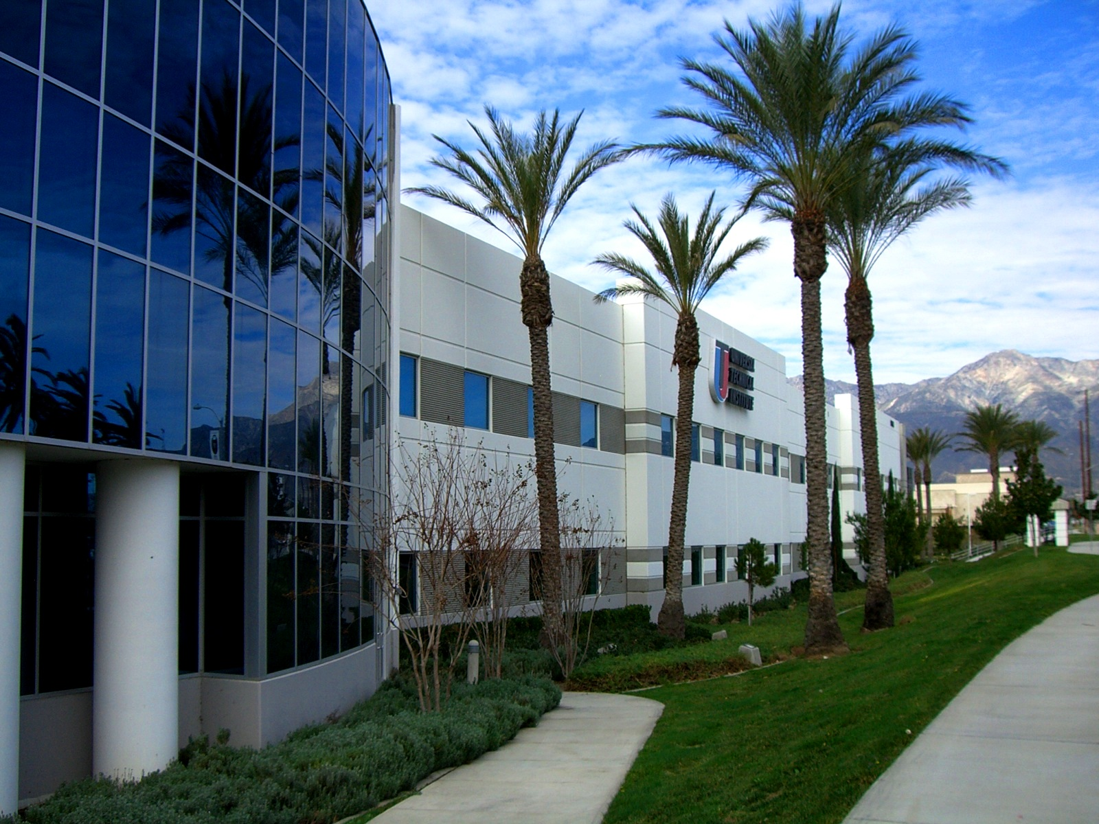 Universal Technical Institute, Rancho Cucamonga, California